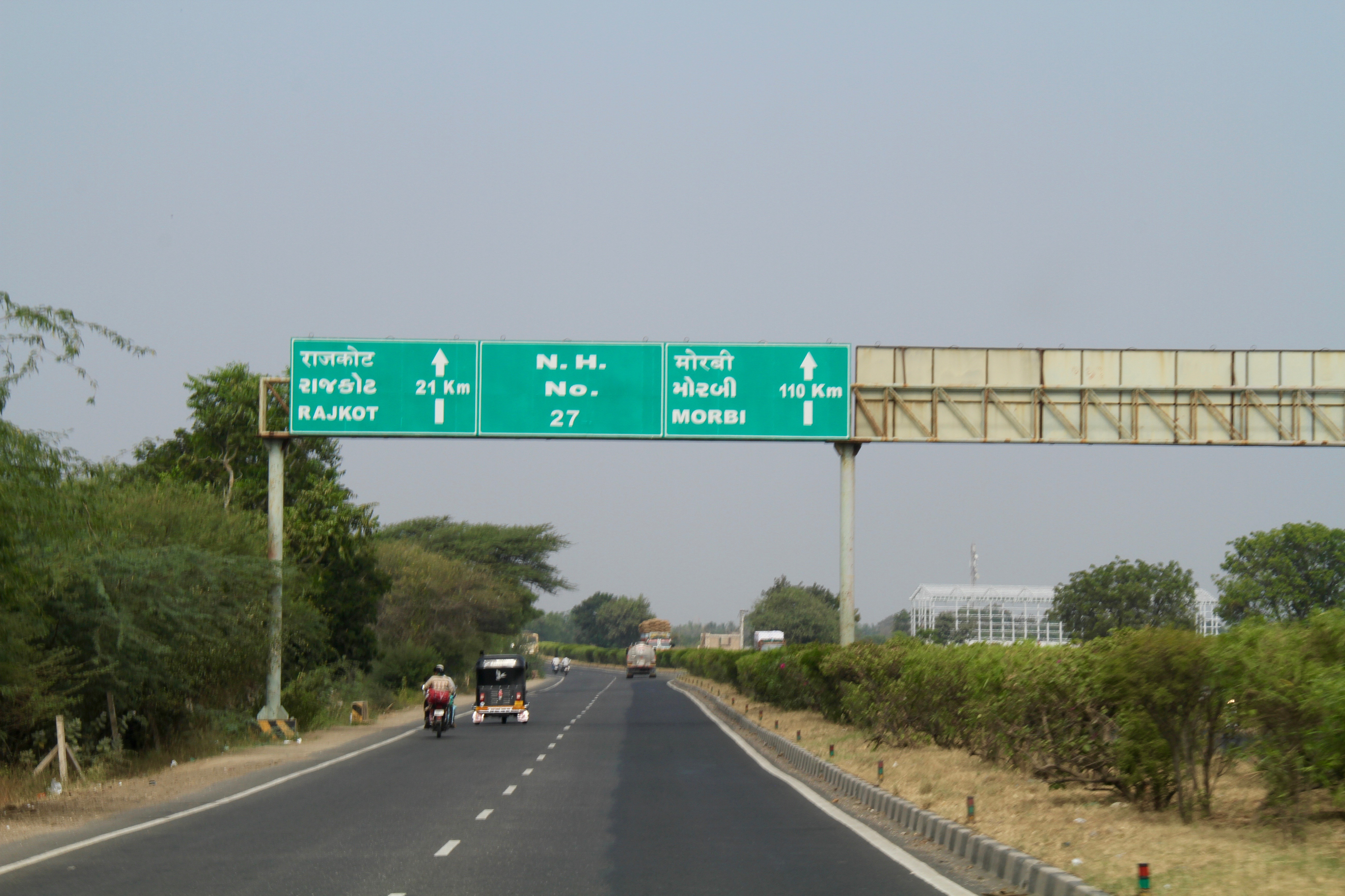 Gujarat 4-lane highways network is extensive between Ahmedabad, Jamnagar, Dwarka, Somnath, Junagadh and Rajkot. The quality of these roads is world class, and covers over 2,000 kilometers. Some are toll roads, many are open access.